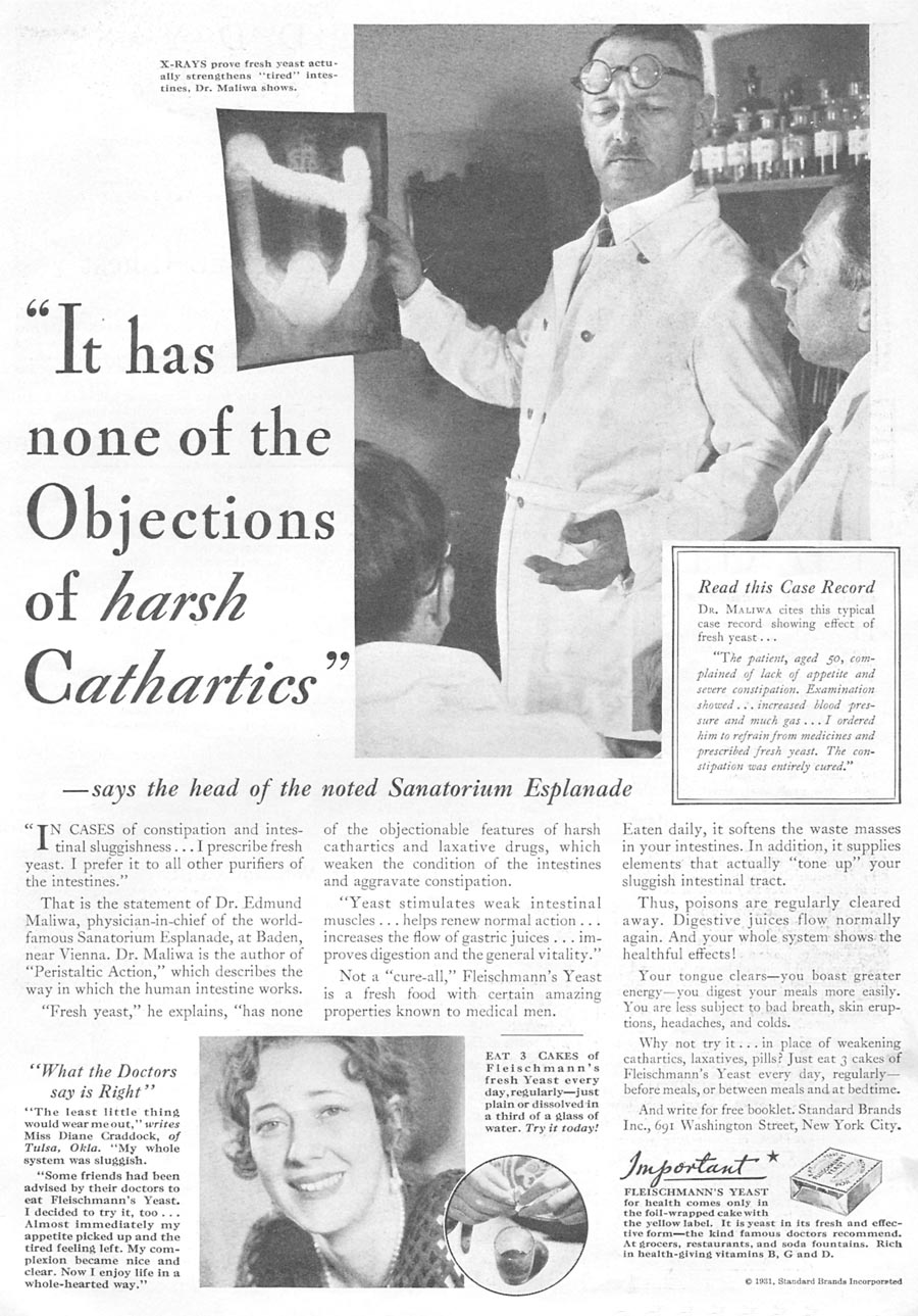 1932 advertisement for Fleischmann's Yeast from Standard Brands. Depicts Internist Dr. Edmund Maliwa of the "famous Sanatorium Esplanade of Baden" and Diane Craddock of Tulsa, Oklahoma. Out of the magazine Good Housekeeping.